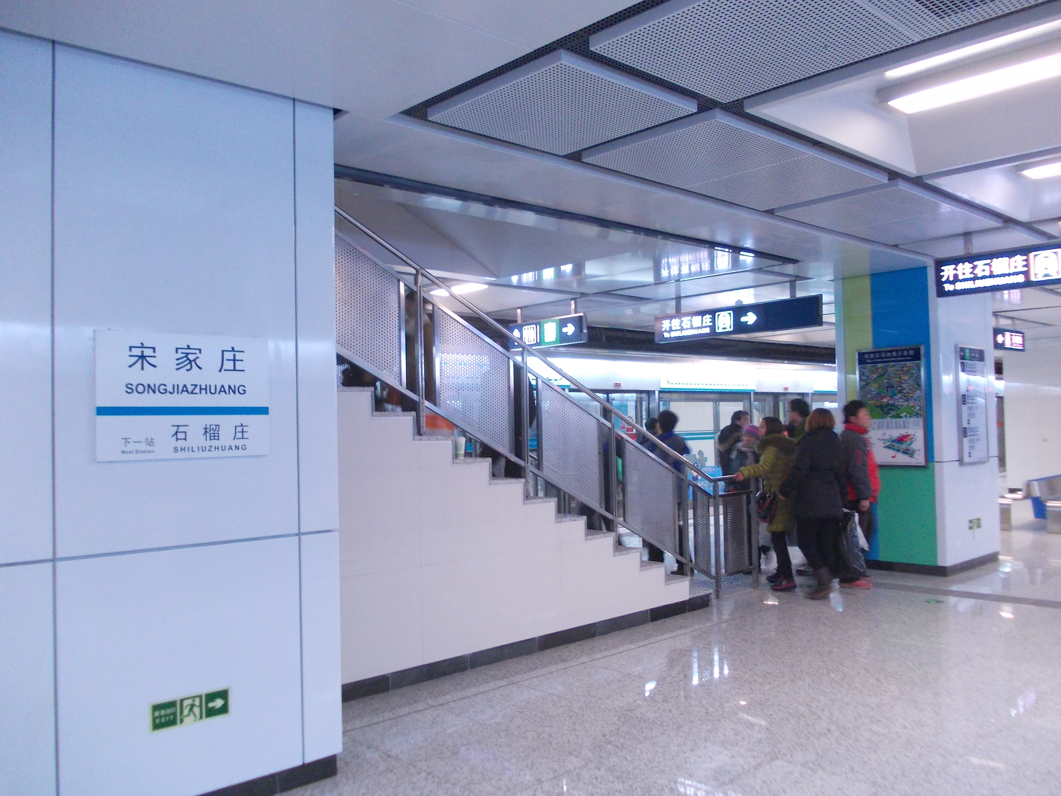 Beijing Subway - Line 10 - Songjiazhuang Station